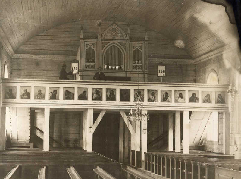 Balcony of old church of Jämsä, Finland